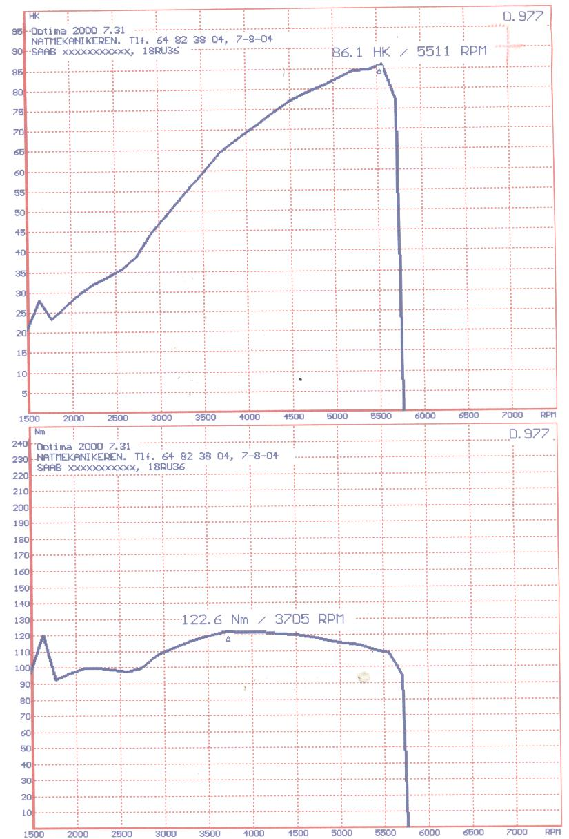 Dynamometer graph of a 1700 cc Ford Taunus V4 engine in a 1977 Saab 96. Scanned and uploaded by MH 18:13, 2004 Aug 20 (UTC)